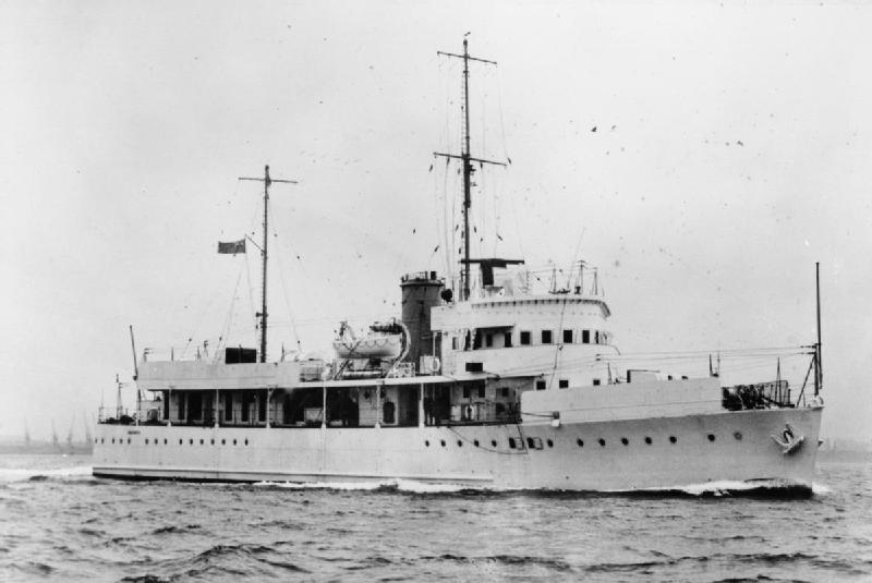 HMS Grasshopper (1938) in China; Royal Navy's China Station.